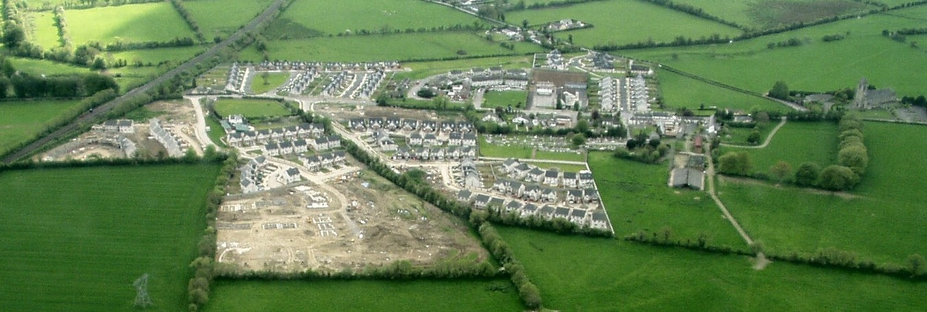 Aerial view of Caragh village, County Kildare, Ireland, c. 2004.